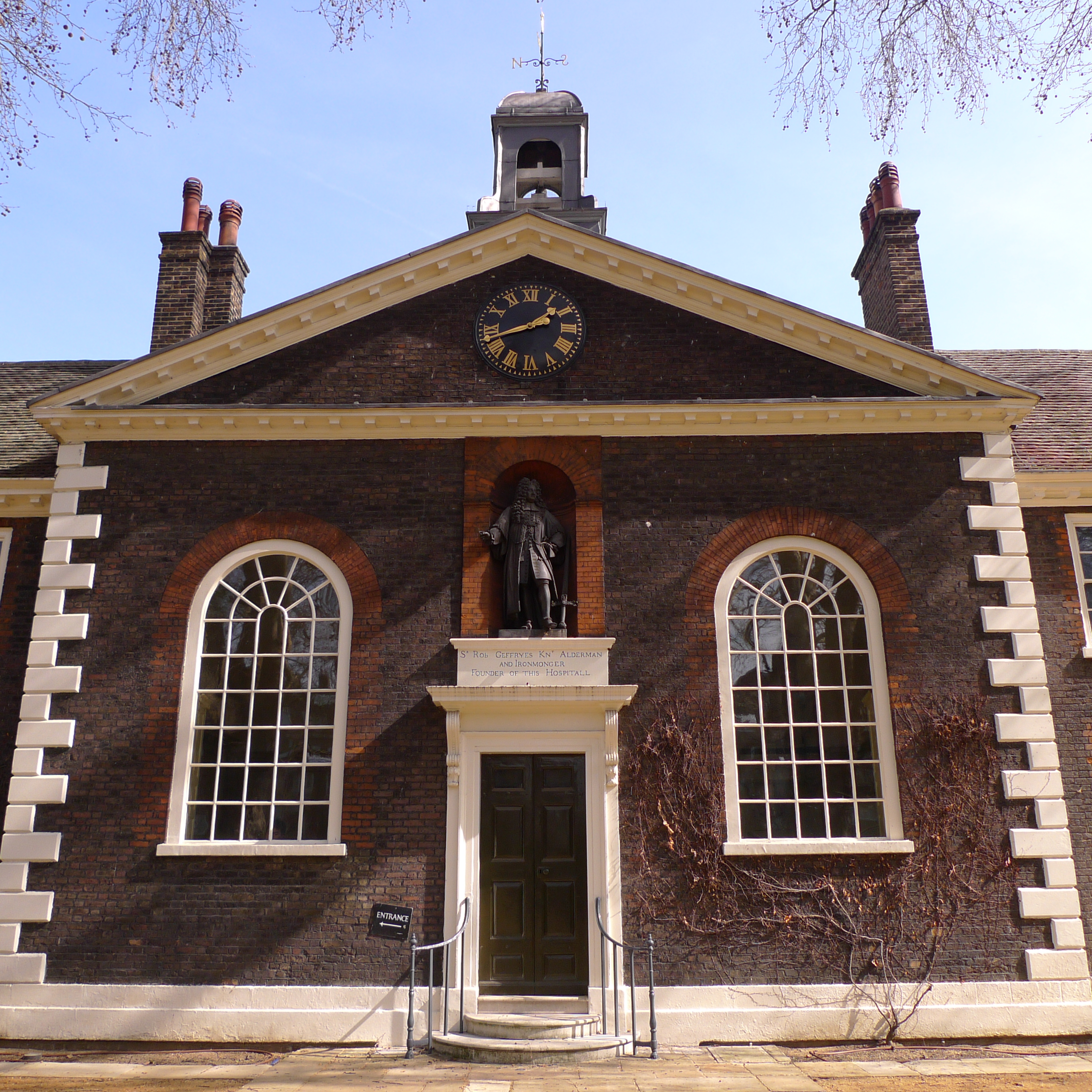 Geffrye Museum, London